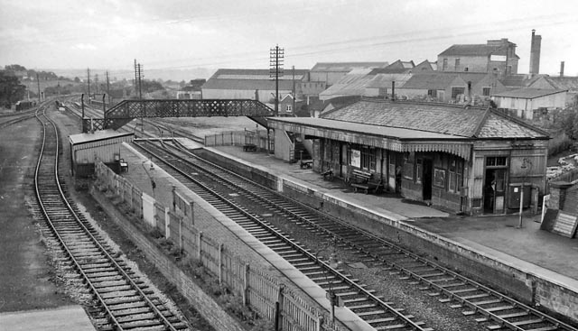 Brettell Lane Station. View southward, towards Stourbridge Junction and Worcester; ex-GWR Worcester - Kidderminster - Stourbridge Junction - Dudley - Wolverhampton secondary main line. The station closed to passengers on 30/7/62 (goods 5/7/65), the route ceasing as a through passenger route north of Stourbridge Jct. A stub remains open to Round Oak Steel Terminal.